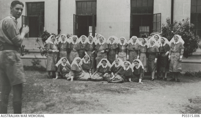 Group portrait of the nursing staff of 2/13th Australian General Hospital. Identified, left to right, back row: VFX61331 Sister (Sr) Gladys Laura Hughes (taken prisoner of war (POW) following the sinking of the Vyner Brooke and died of illness on 31 May 1945); SFX13419 Sr Annie Merle Trenerry (drowned following the sinking of the Vyner Brooke); SX13431 Sr Lorna Florence Fairweather (one of 22 nurses who survived the sinking of the Vyner Brooke and were washed ashore on Radji Beach, Banka Island, where they surrendered to the Japanese, along with 25 British soldiers. On 16 February 1942 the group was massacred, the soldiers were bayoneted and the nurses were ordered to march into the sea where they were shot); SFX13548 Lt Carrie Jean (Jean) Ashton (taken POW following the sinking of the Vyner Brooke); VX61226 Sr Bessie Christina Ellen Muldoon; VFX61330 Sr Vivian Bullwinkel (survived the massacre on Radji Beach, then taken POW by the Japanese, she survived and was able to give evidence in the war crimes trials); SFX10504 Matron Irene Melville Drummond (massacred on Radji Beach); SX13420 Sr Maude Lyall Spehr; V9259 Sr Bessie Christina Taylor (no further information); NX76276 Sr Marie Evelyn Hurley; NX76275 Sr Mary Eleanor McGlade; SX13418 Lt Florence Rebecca Casson (massacred on Radji Beach); NX76282 Lt Veronica Ann Clancy; TX6020 Sr Harley Rosalind Brewer; NX76279 Sr Janet Kerr (murdered on Radji Beach). Front row: TX 6024 Sr May Eileen Rayner; NX76284 Sr Ada Joyce Bridge murdered on Radji Beach); WX11174 Sr Minnie Ivy Hodgson; SX12140 Sr Nellie Pearce Bentley; Sr Betty H Garood; Sr Seeholm (no further information); SX13081 Sr Elvin Minna Wittwer. Note the soldier in the foreground holding a camera.